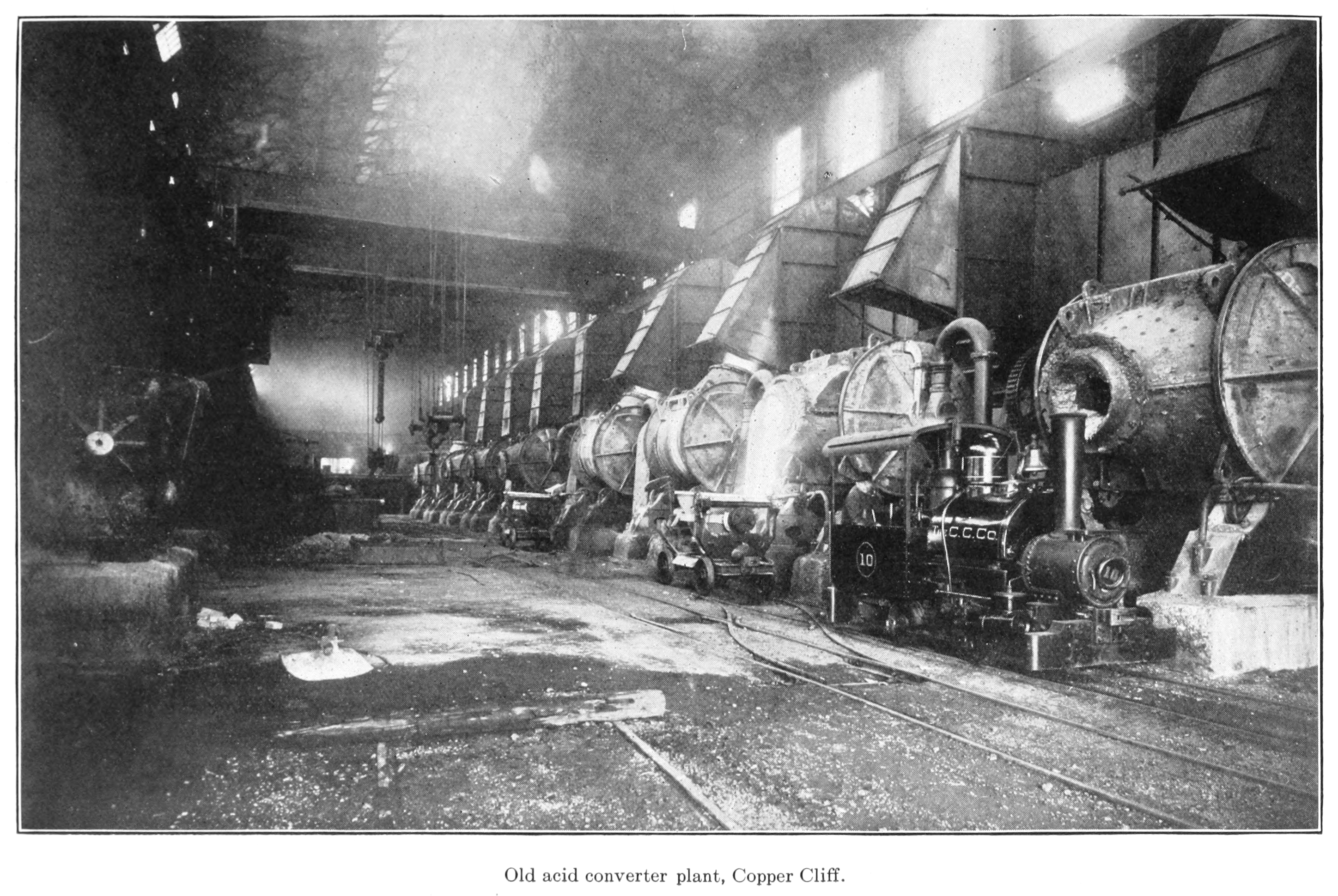 A set of the 10 Manhès-David acid converters (Allis-Chalmers type) operated by the Canadian Copper Company before 1911. The shell was 84 x 126 inches. If the starting matte was 36% Ni+Cu, the acid lining lasted 8 hours, or 7 tons of 80% Ni+Cu converted matte ; each blow lasting 1h 5min. If the starting matte was 30% Ni+Cu, the acid lining lasted 5.3 tons of converted matte ; each blow lasting 1h 15min.